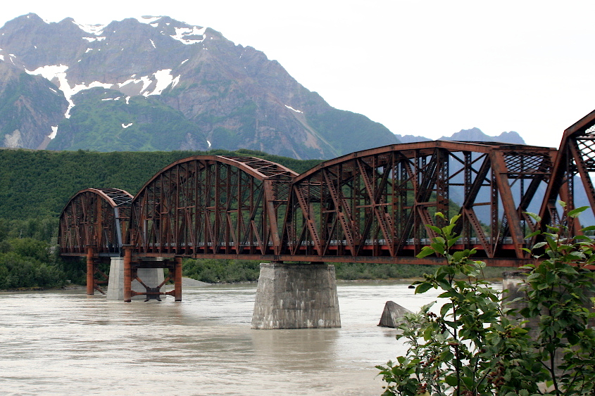 Miles Glacier Bridge, also known as Million Dollar Bridge, showing the repairs performed in 2004.